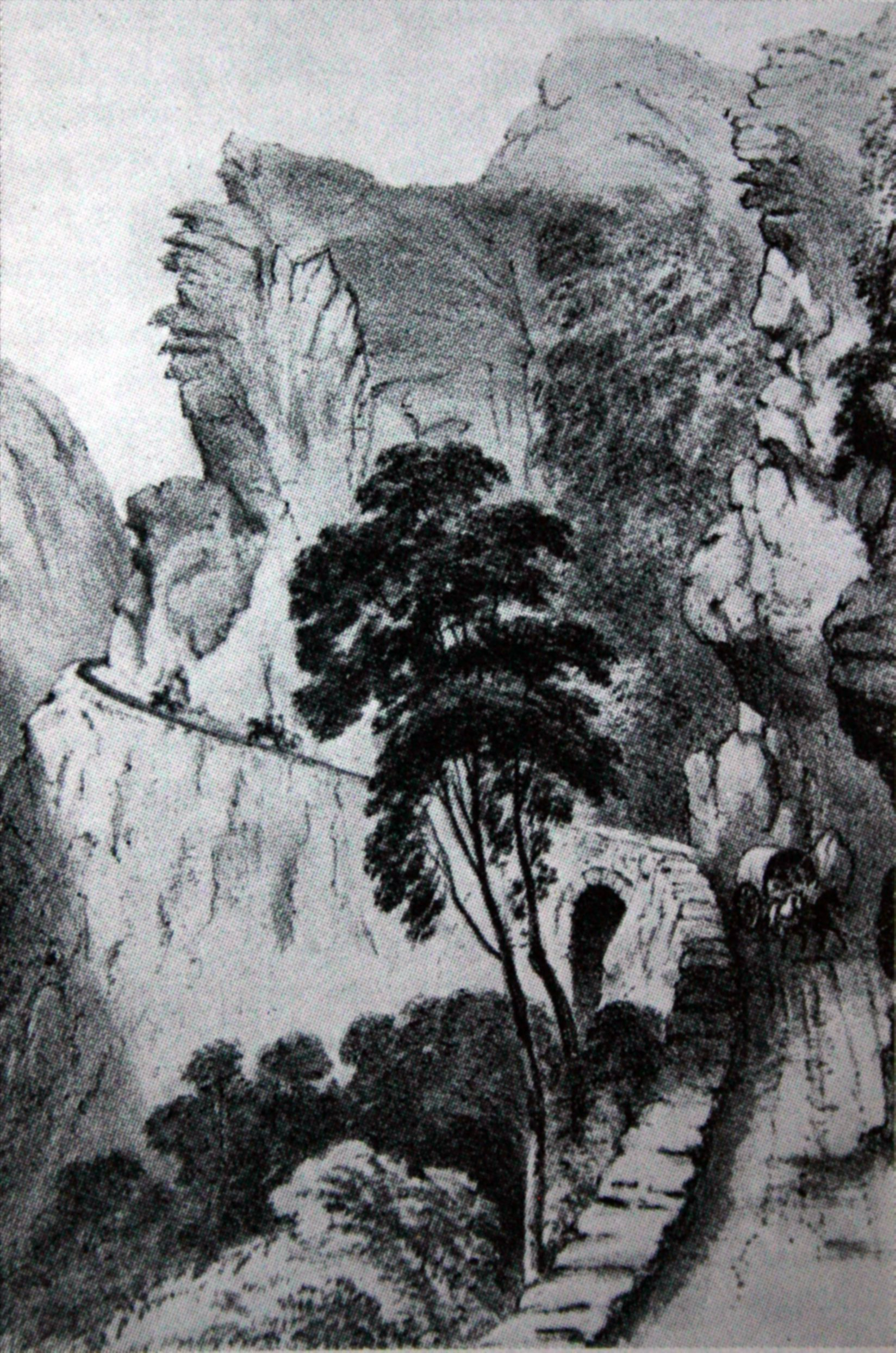 Watercolour painting of Montagu Pass nr George, Cape Province